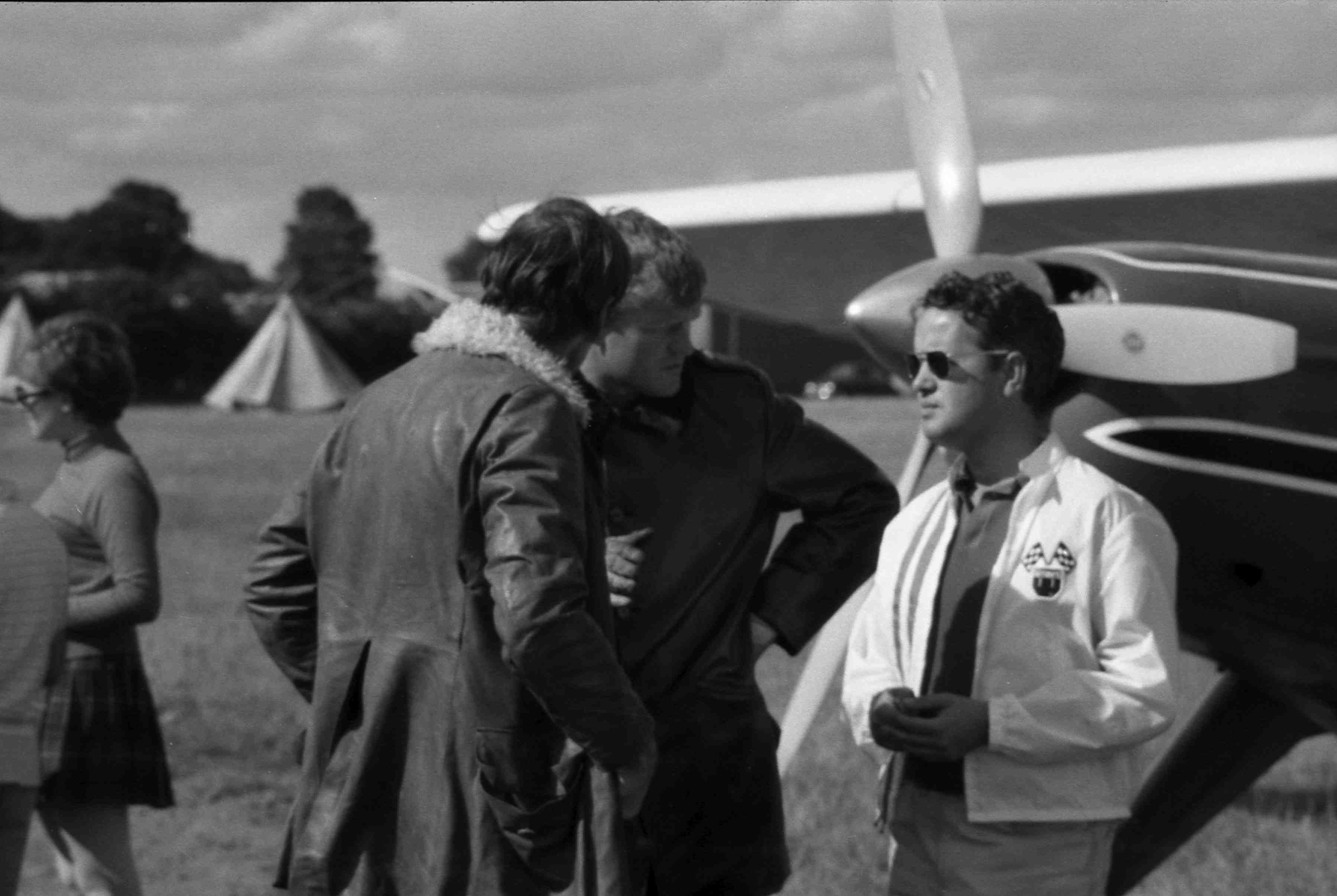 Lynn Garrison and Richard Bach in front of Helio Courier G-ARMU on Weston Aerodrome, Ireland during the August 1970 filming of Roger Corman's Richthofen & Brown